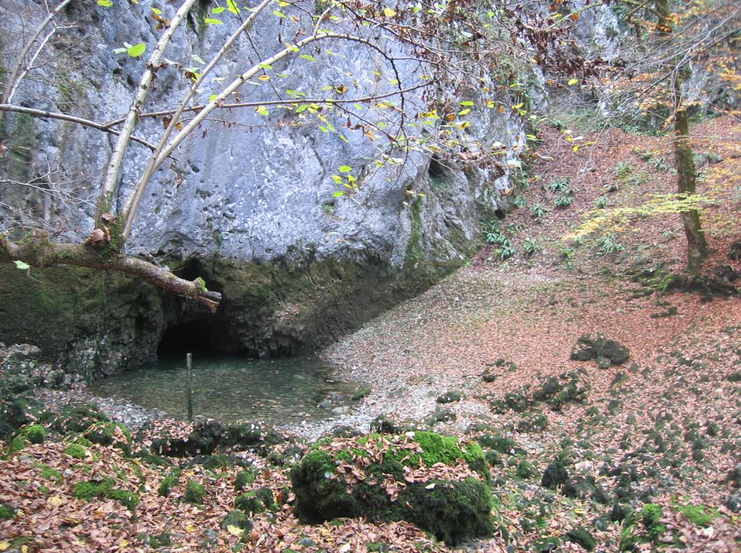 Veliko okence («big window»), south of Vrhnika, ca. 20km west of Slovenia's capital Ljubljana. One of several karst springs, which feed river Ljubljanica. In fact waters from the southern border to Croatia (ca. 100km further south) in Prezidsko Polje and Babno Polje cascade through no less than six karst systems, before resurging at the flats of the Ljubljana marshes.